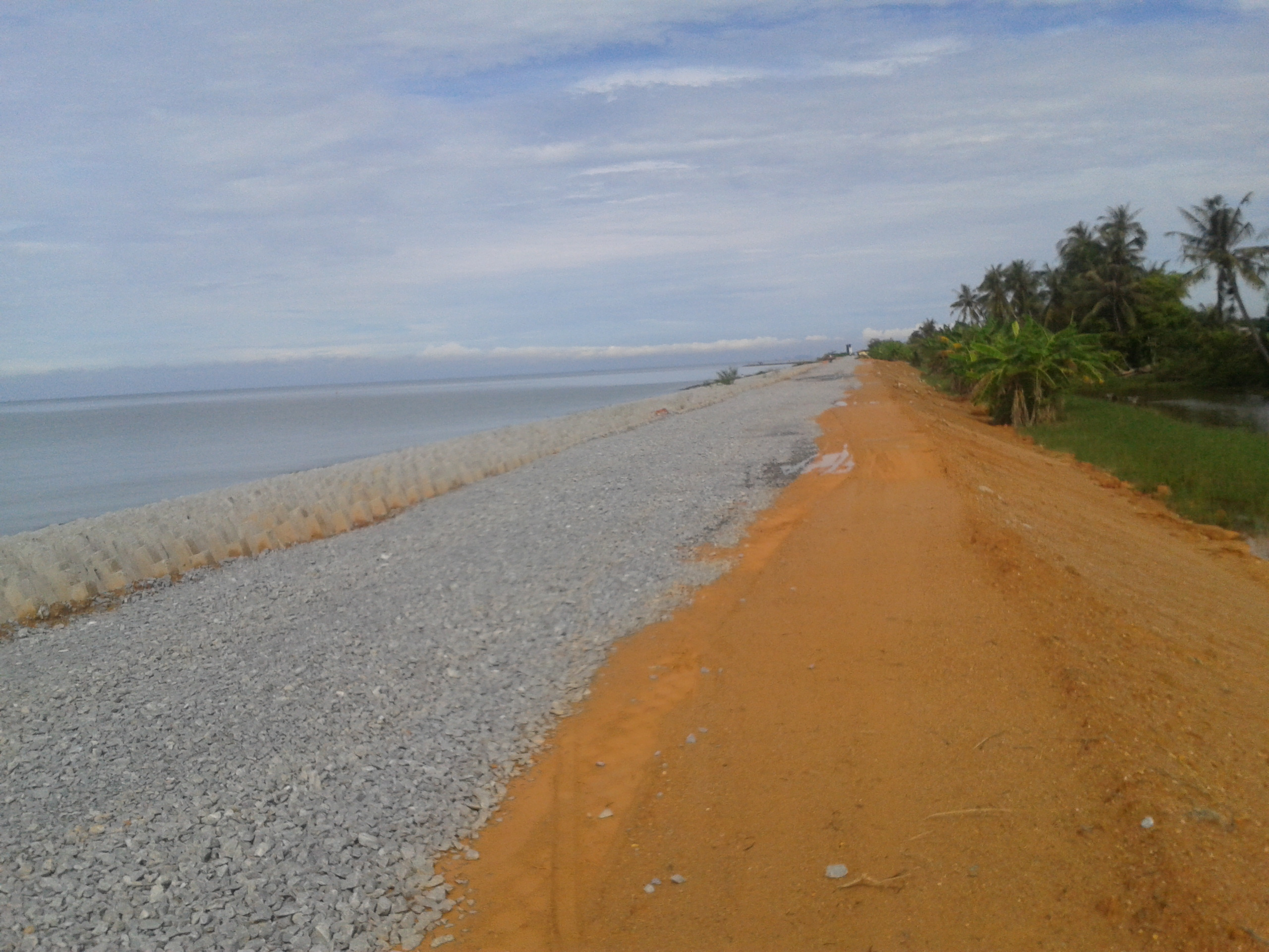 Levee ( ban pecah ) at Kampung Sungai Burong, Tanjung Piandang, Perak, coordinates might not be accurate